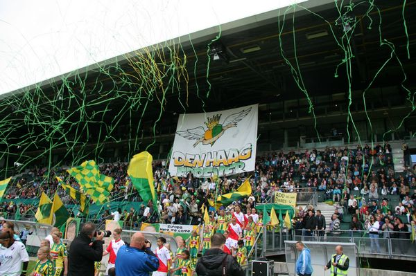 ADO Dames 2010/2011